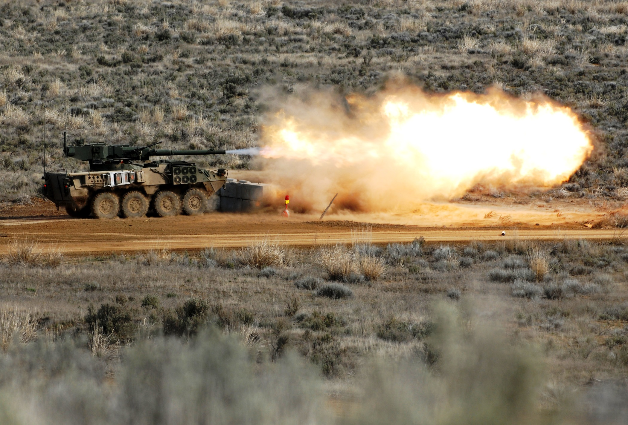 Armor Soldiers assigned to 3rd Stryker Brigade Combat Team, 2nd Infantry Division, fire their Main Gun Systems (MGS) Stryker’s 105 mm main gun during a live fire range 28 March 2011, at Yakima Training Center, Wash. Each MGS crew in the Arrowhead Brigade completed the 1500 meter course firing at targets of various distances.